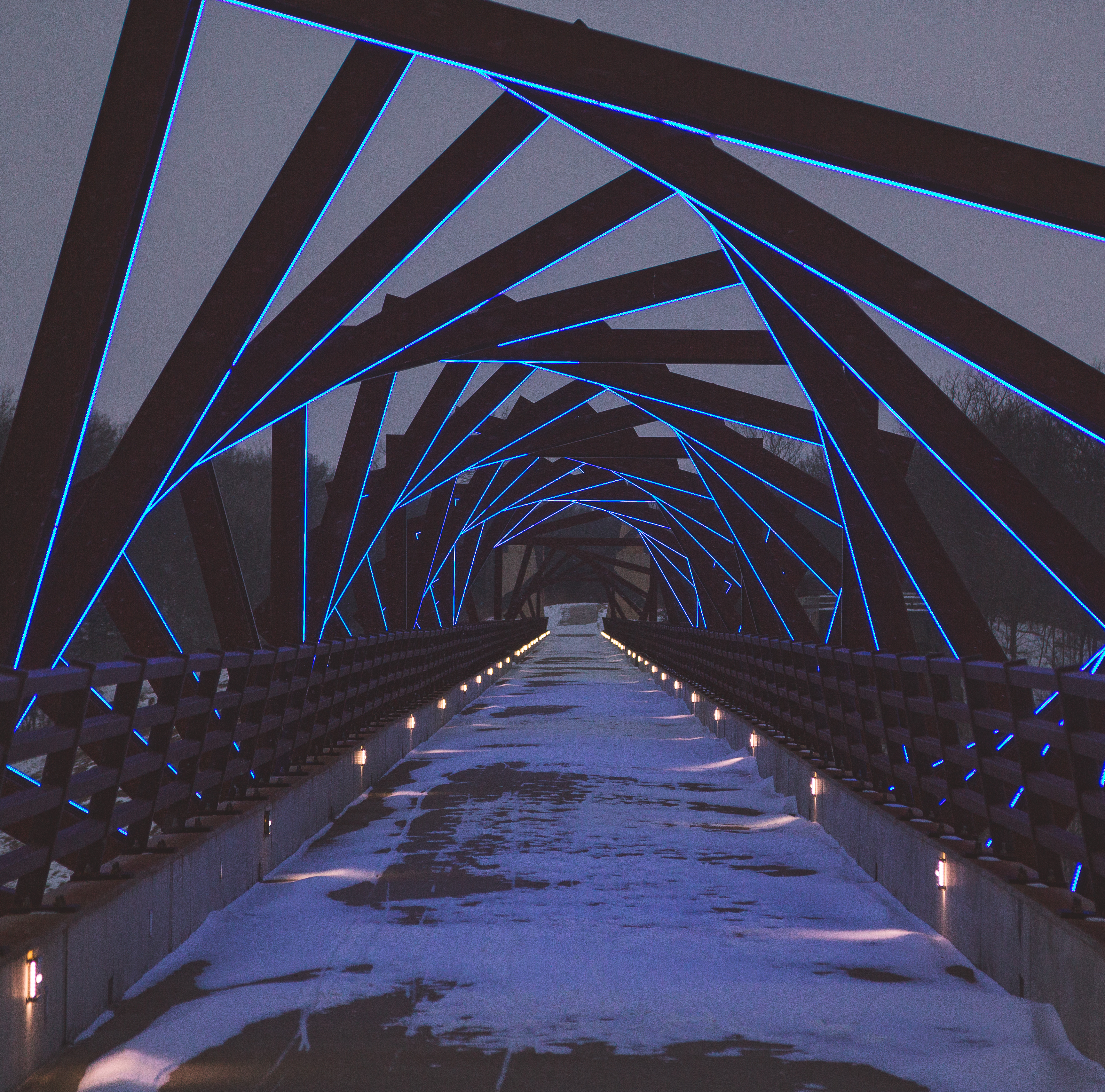 The High Trestle Trail Bridge over the Des Moines River Valley between Woodward and Madrid in Central Iowa, United States.